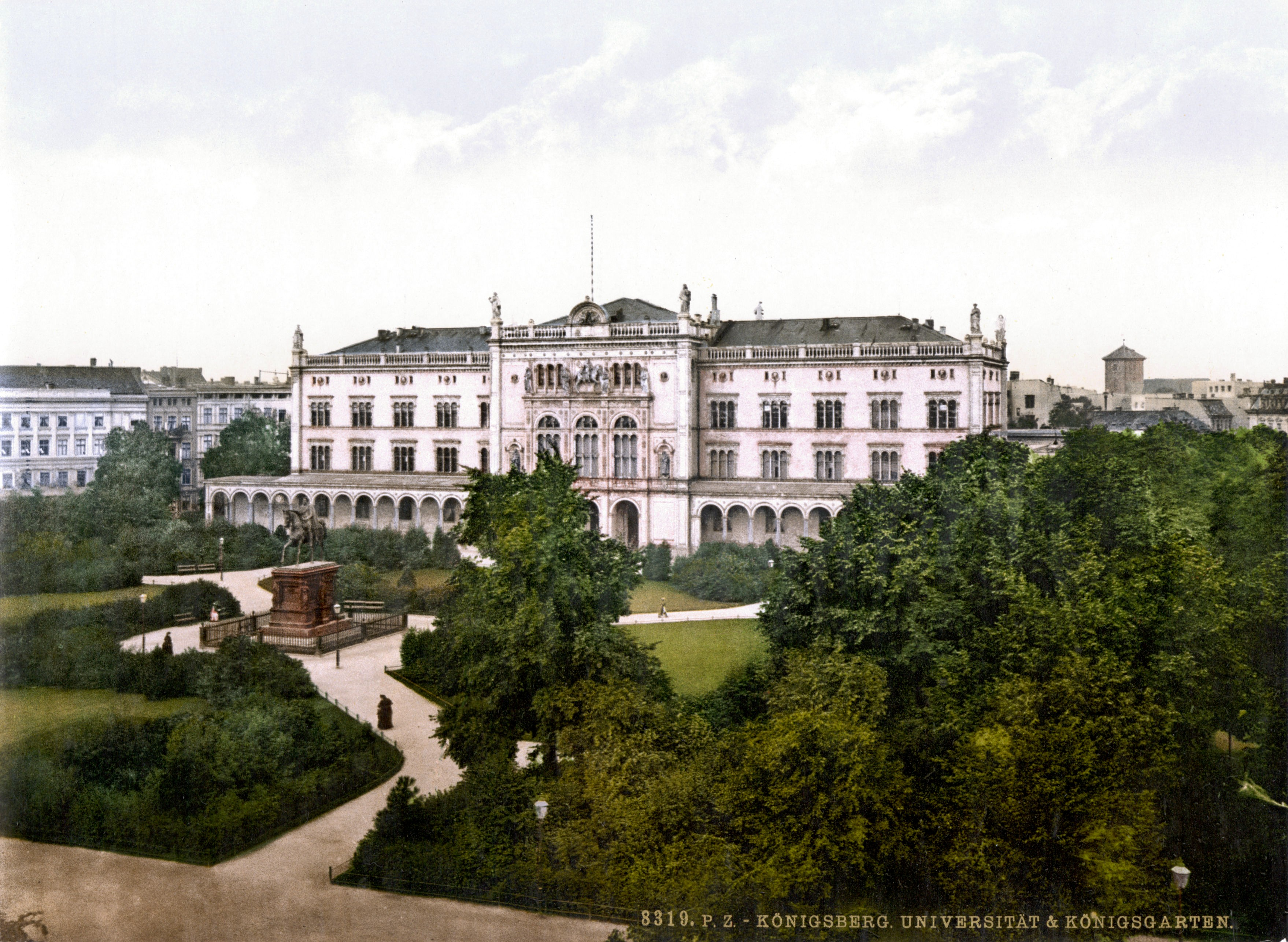 19th-century postcard of the Albertina University in Königsberg.